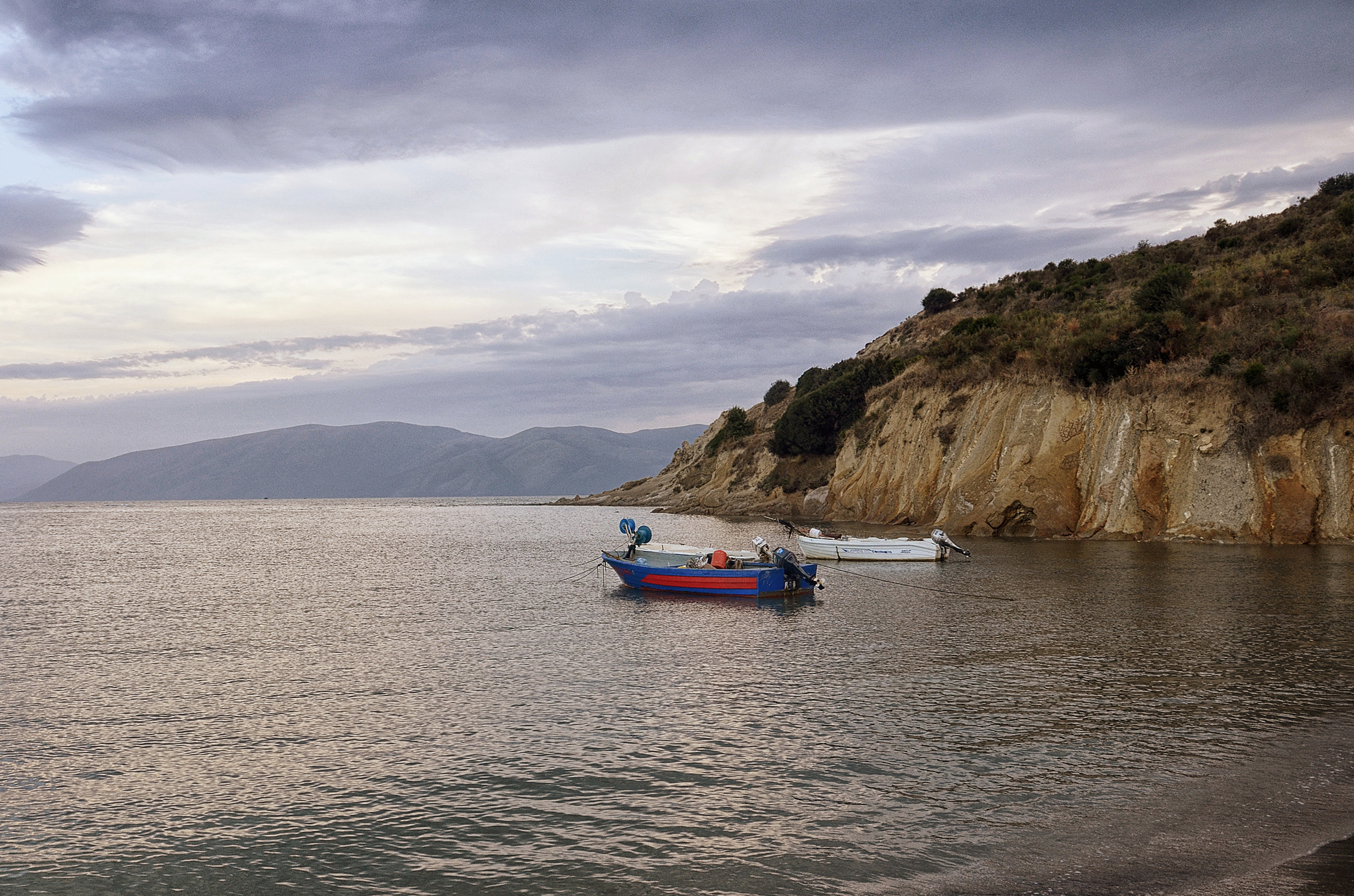 The Kepi i Treportit (Treport Cape) by Zvërnec